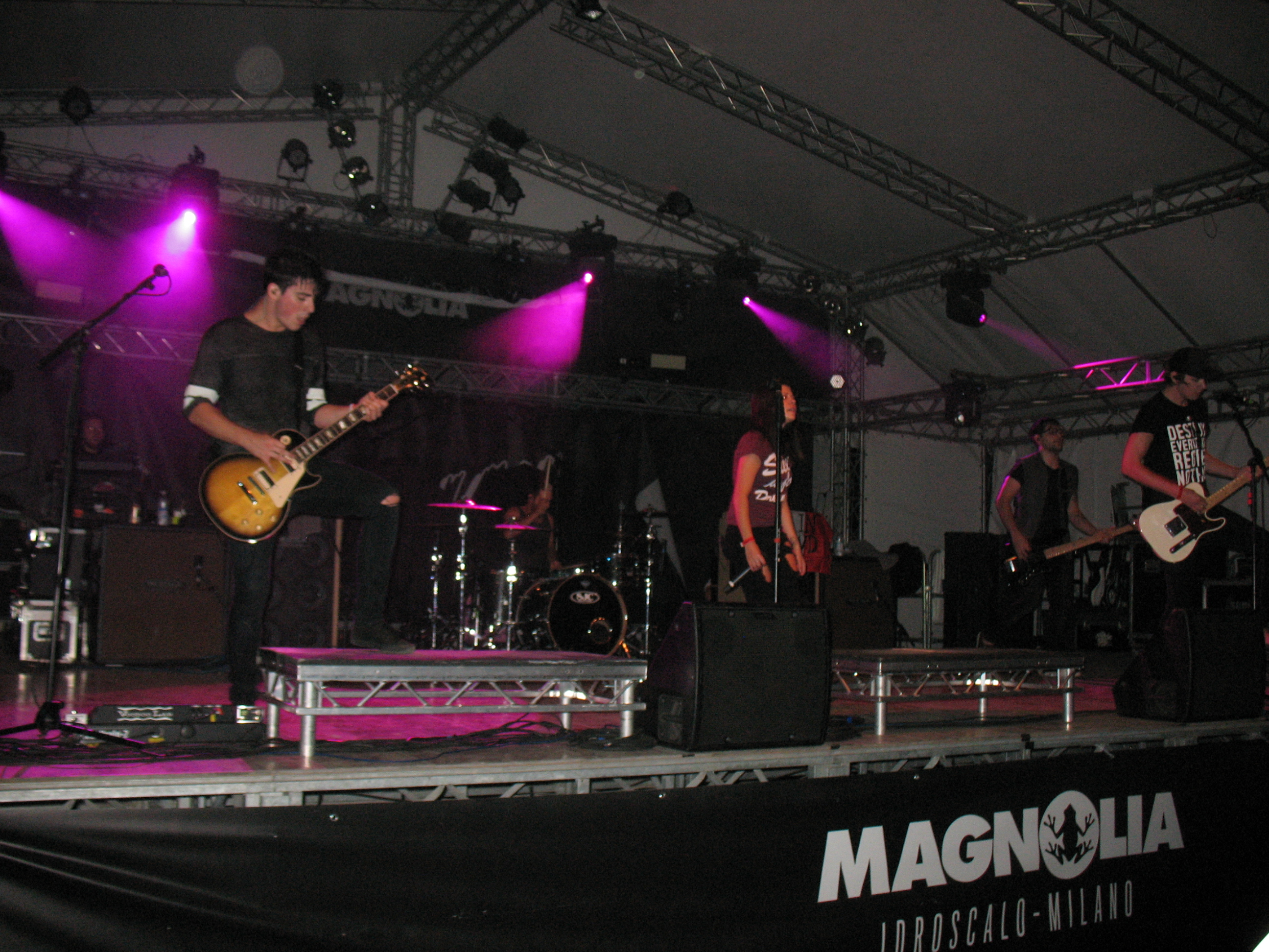 American group We Are the In Crowd live at Circolo Magnolia in Segrate, Italy, 2013-08-29.